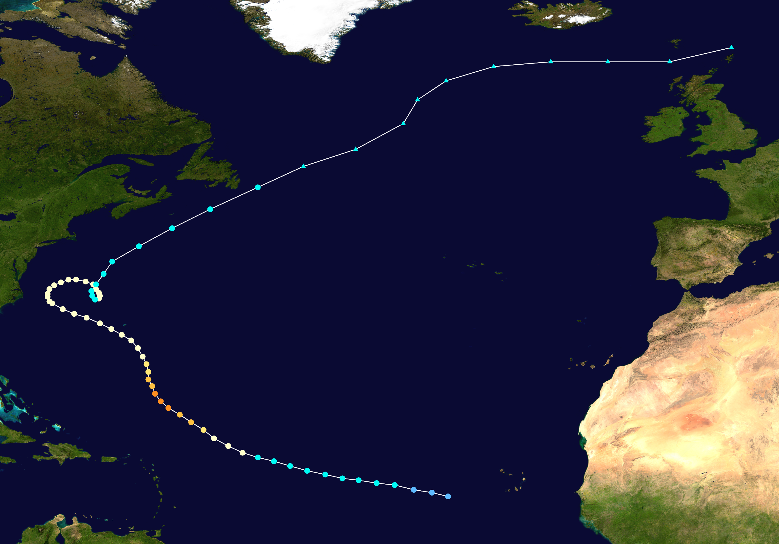 Track map of Hurricane Felix of the 1995 Atlantic hurricane season. The points show the location of the storm at 6-hour intervals. The colour represents the storm's maximum sustained wind speeds as classified in the Saffir–Simpson scale (see below), and the shape of the data points represent the nature of the storm, according to the legend below. Saffir–Simpson scale Tropical depression≤38 mph≤62 km/h Category 3111–129 mph178–208 km/h Tropical storm39–73 mph63–118 km/h Category 4130–156 mph209–251 km/h Category 174–95 mph119–153 km/h Category 5≥157 mph≥252 km/h Category 296–110 mph154–177 km/h Unknown Storm type Tropical cyclone Subtropical cyclone Extratropical cyclone / Remnant low / Tropical disturbance / Monsoon depression